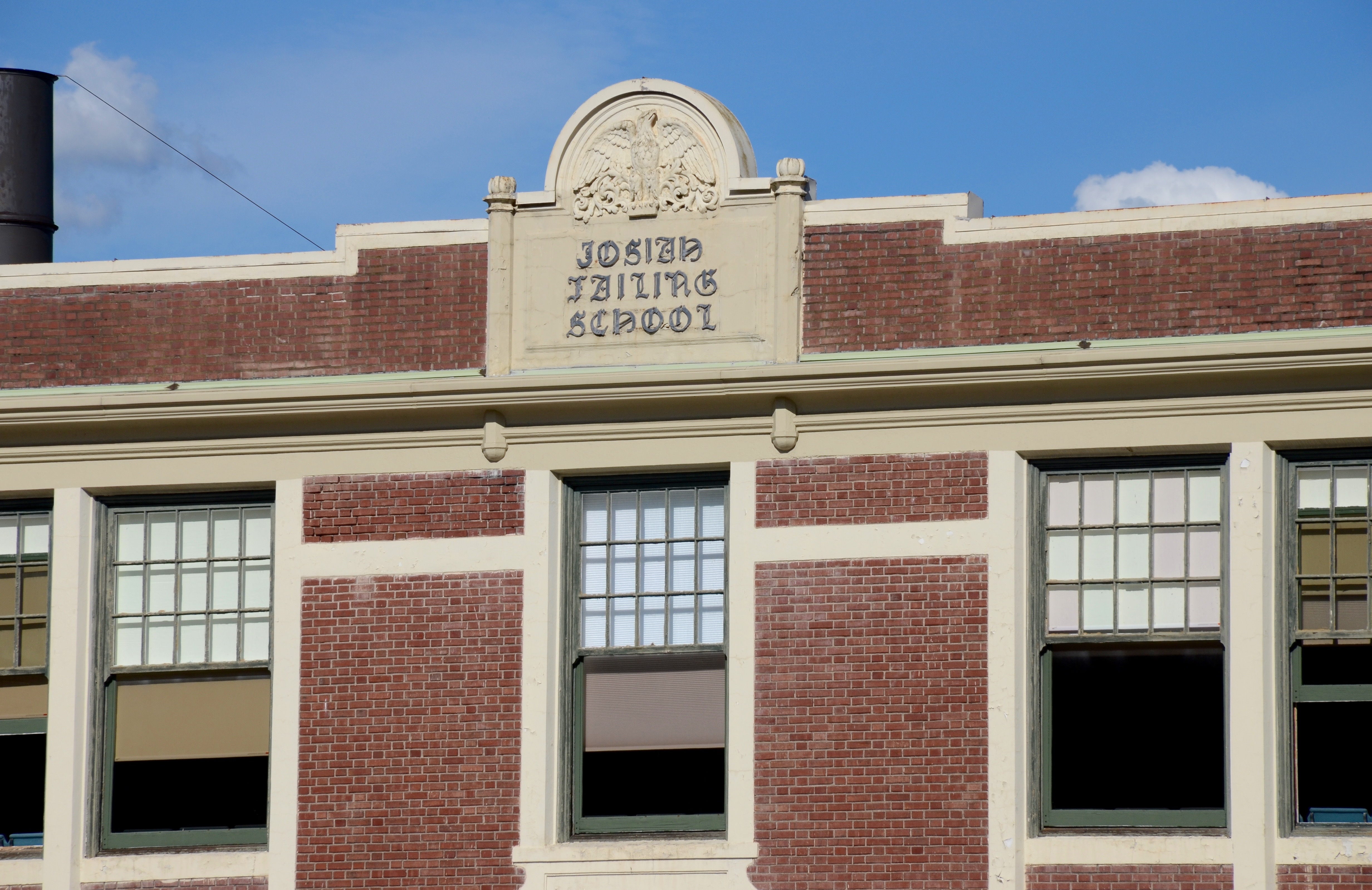 Sign on west roof of the 1912 building that became the Natural College of Naturopathic Medicine (now the Natural College of Natural Medicine) in 1996, dating from the building's original function as the Josiah Failing School, of the Portland Public Schools system. The elementary school was named for former Portland mayor Josiah Failing.